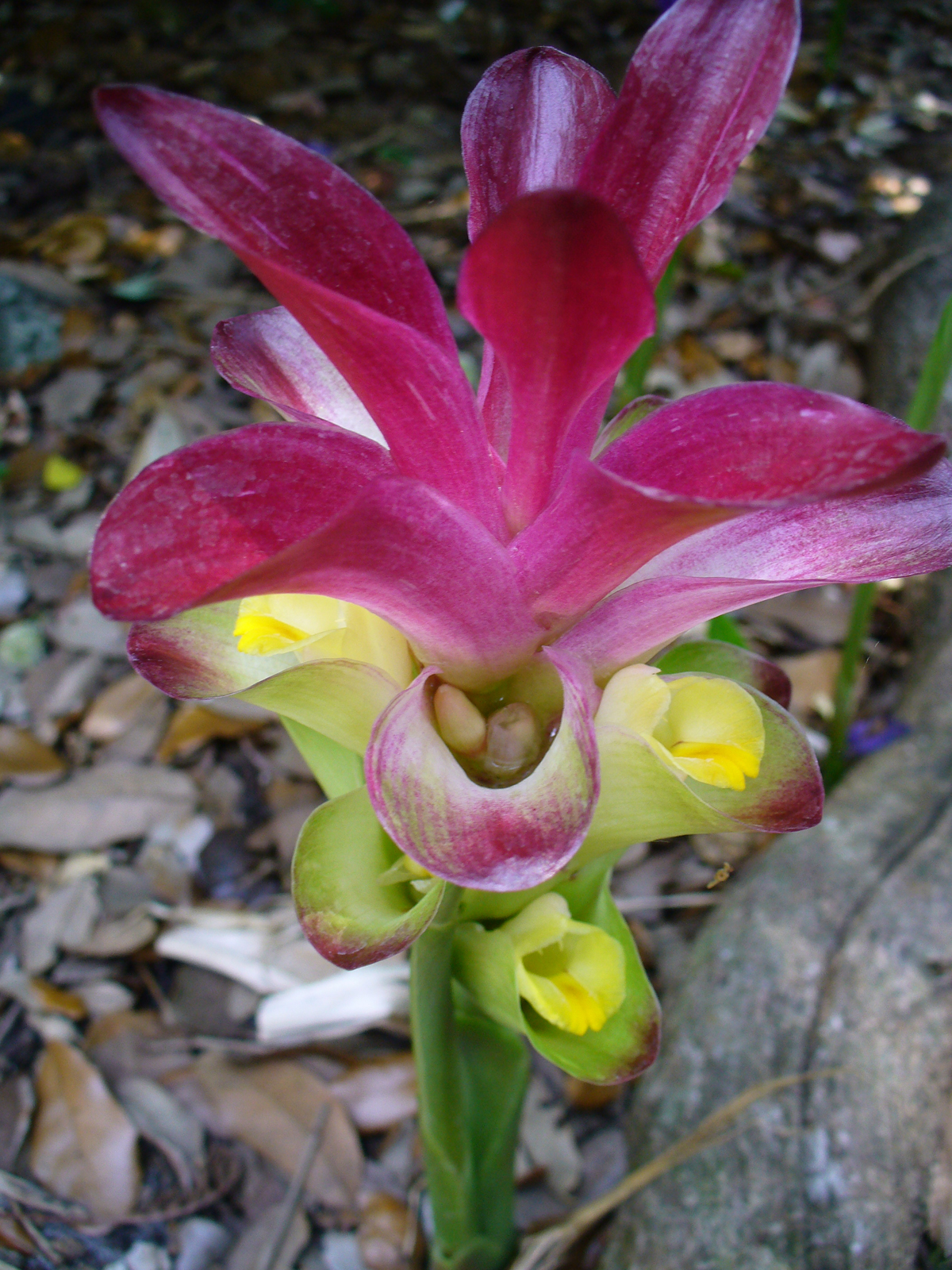 Fairchild Tropical Botanic Garden, Miami, FL, USA